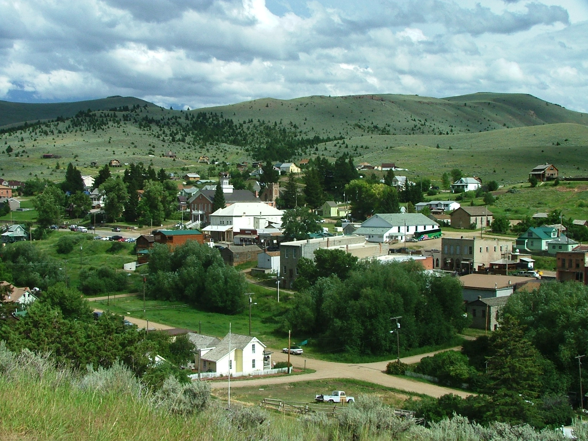 Virginia City, Montana, USA. The view from the road agent cemetery on the hill.